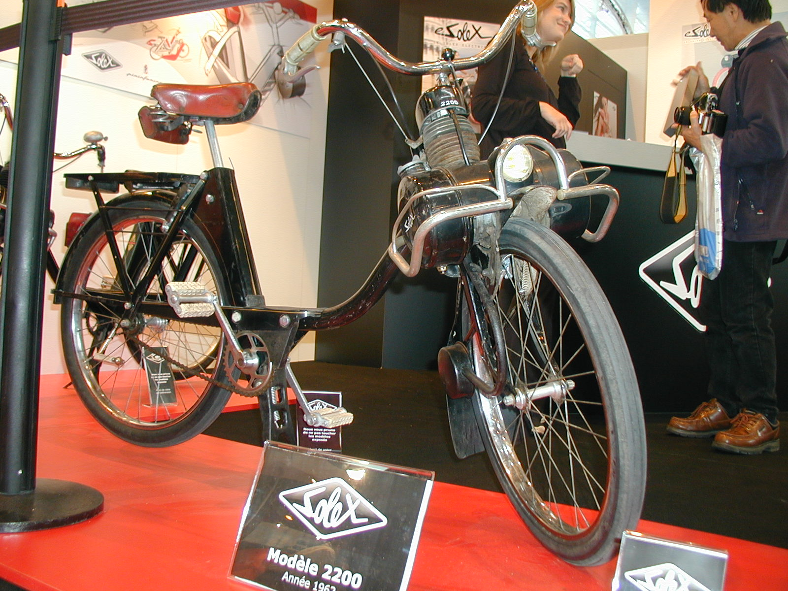 The french Velosolex 2200 (1962).